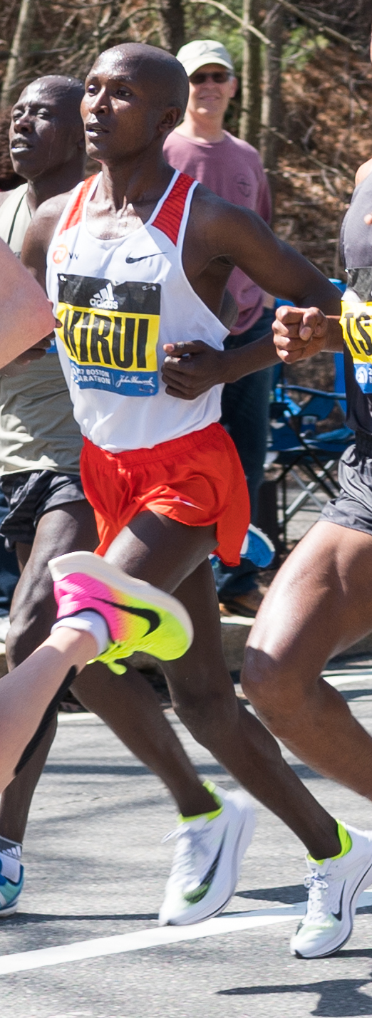 Approximately Mile 12 of the 2017 Boston Marathon. Pictured is Geoffrey Kirui center photo.